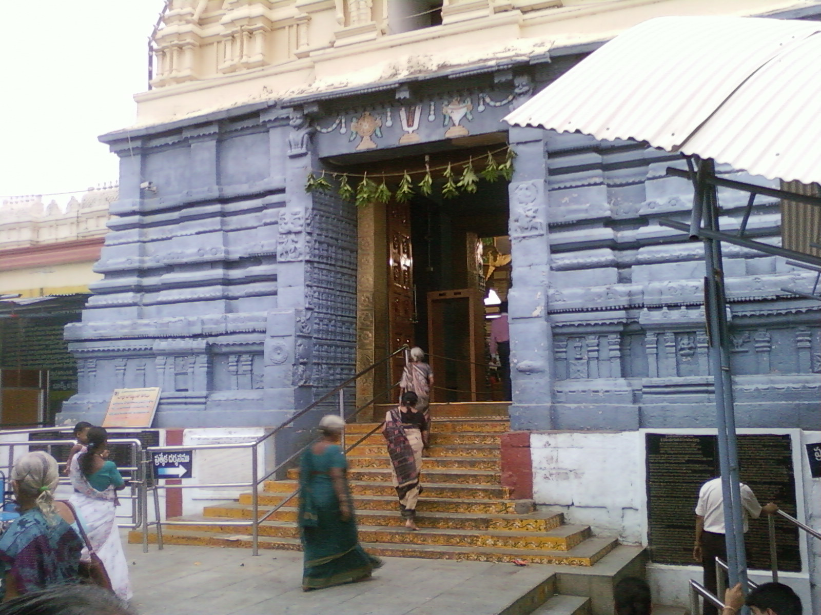 The image shows the entrance to he Rama temple at Bhadrachalam. Pilgrims are also seen walking in to and out of the temple.